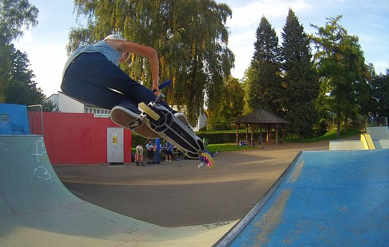 Stunt´scooter in a halp pipe in south germany at the lake of constance